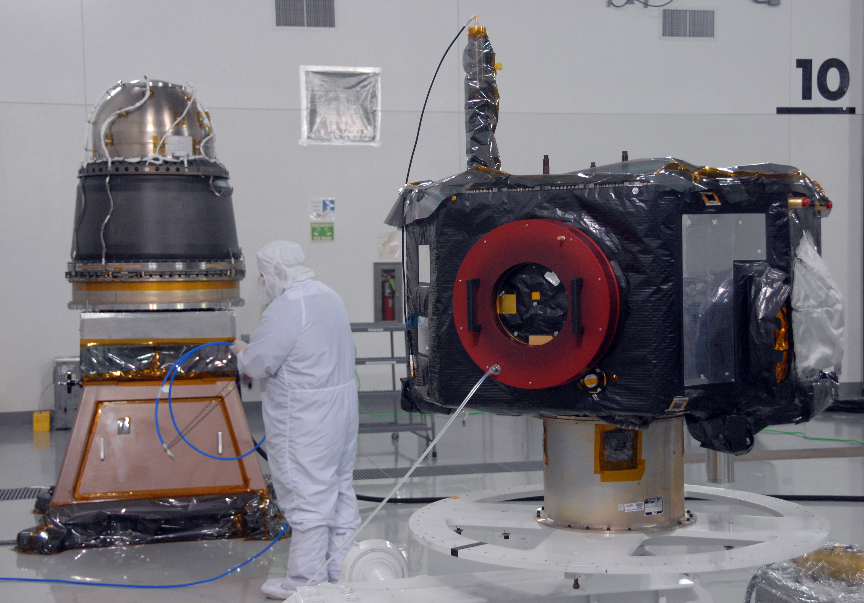 VANDENBERG AIR FORCE BASE, Calif. – At Vandenberg Air Force Base in California, at right is the NASA's Interstellar Boundary Explorer, or IBEX, spacecraft. At left are the Star-27 kick motor and nozzle for IBEX “on top” and the adapter cone, part of the IBEX flight system, underneath. The IBEX is being prepared for a spin balance test. The IBEX satellite will make the first map of the boundary between the Solar System and interstellar space. IBEX is the first mission designed to detect the edge of the Solar System. As the solar wind from the sun flows out beyond Pluto, it collides with the material between the stars, forming a shock front. IBEX contains two neutral atom imagers designed to detect particles from the termination shock at the boundary between the Solar System and interstellar space. IBEX also will study galactic cosmic rays, energetic particles from beyond the Solar System that pose a health and safety hazard for humans exploring beyond Earth orbit. IBEX will make these observations from a highly elliptical orbit that takes it beyond the interference of the Earth's magnetosphere. IBEX is targeted for launch from a Pegasus XL rocket on Oct. 5. Photo credit: NASA/VAFB